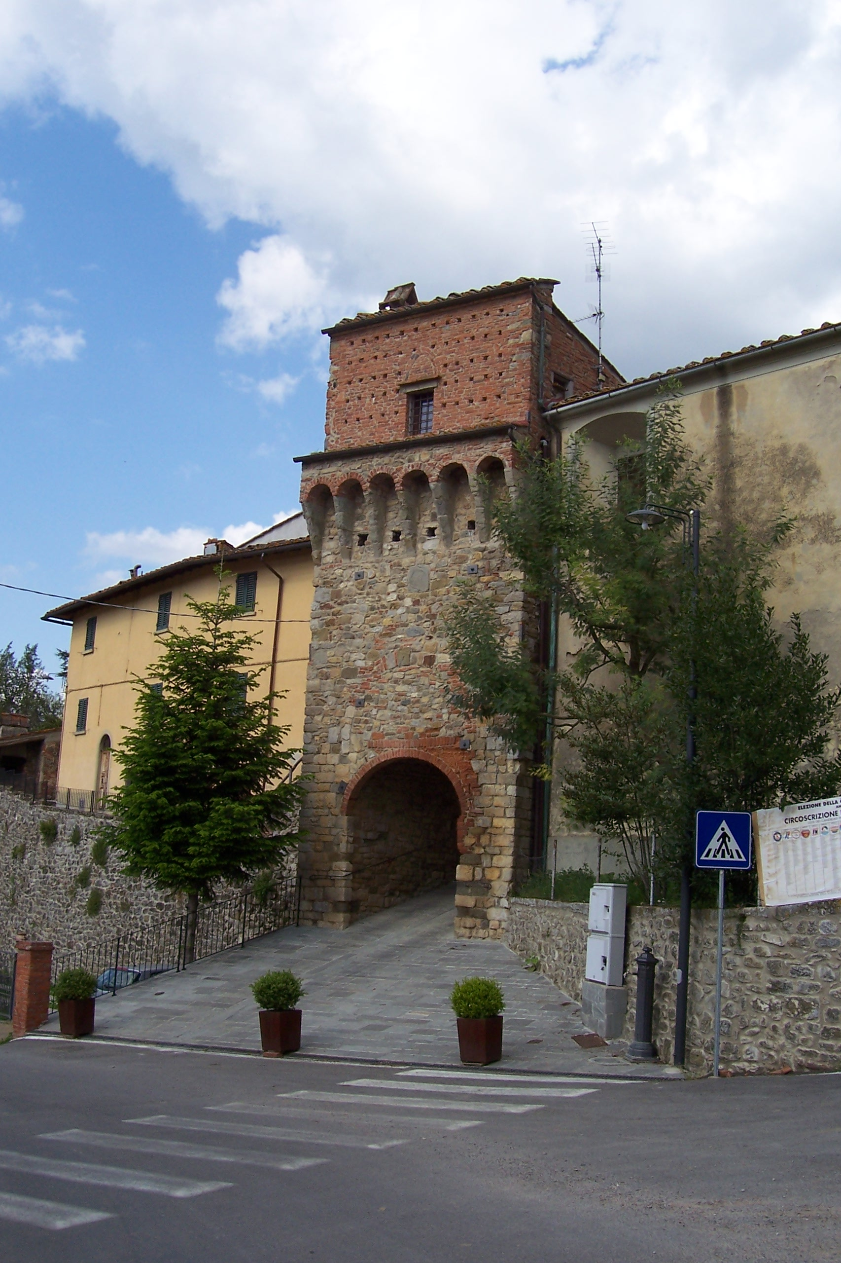 The former main tower of Caposelvi castle, now a house